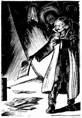 Gogol (burning the manuscript of the second part of "Dead Souls"). Wood enrgaving. 1934